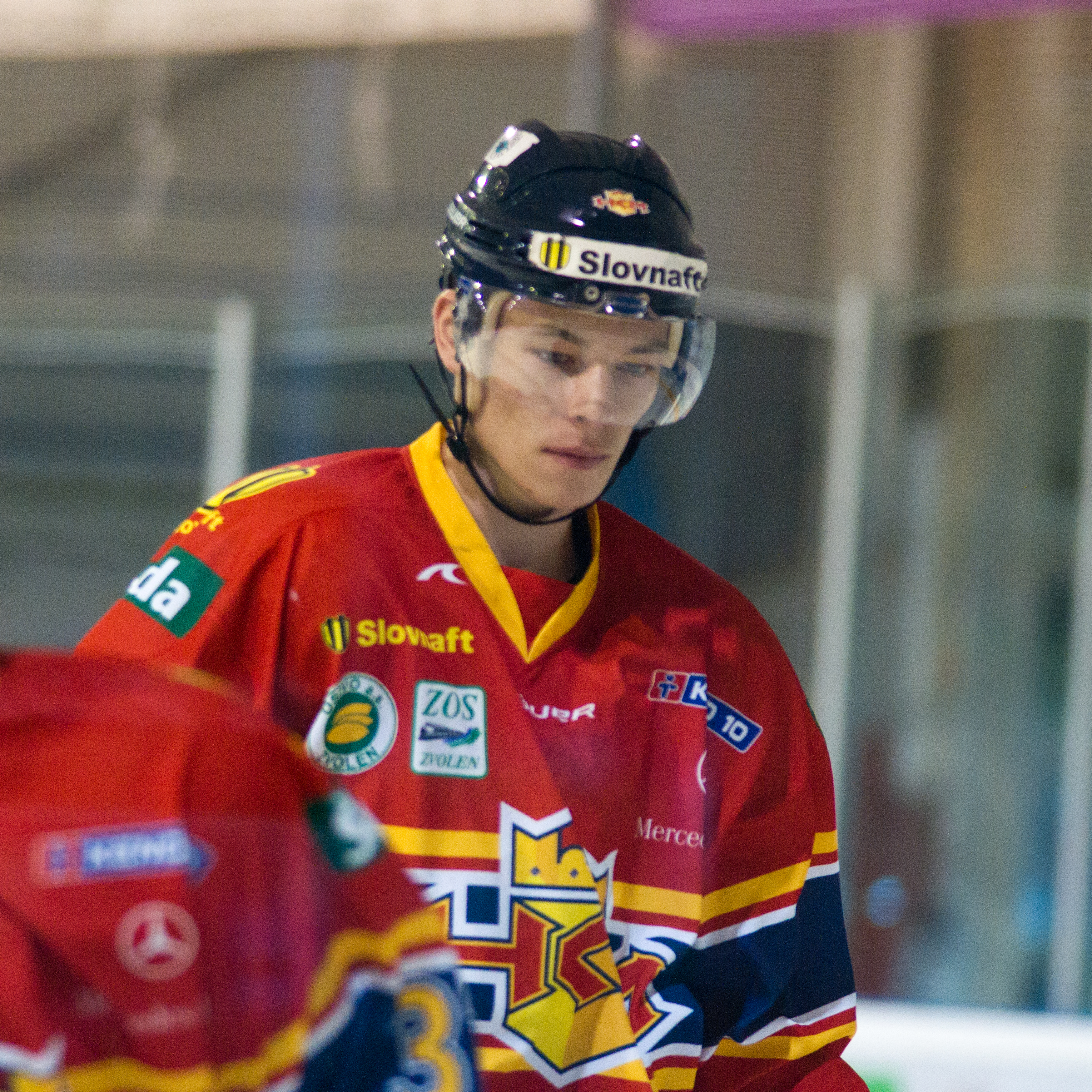 Festyvhockey 2010, Yverdon-les-Bains. The making of this document was supported by Wikimedia CH. (Submit your project!) For all the files concerned, please see the category Supported by Wikimedia CH.